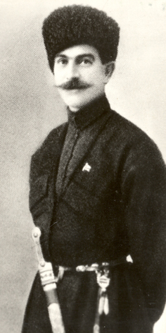 Colonel Kakutsa Cholokashvili Georgia Pre-1921 image, unknown author